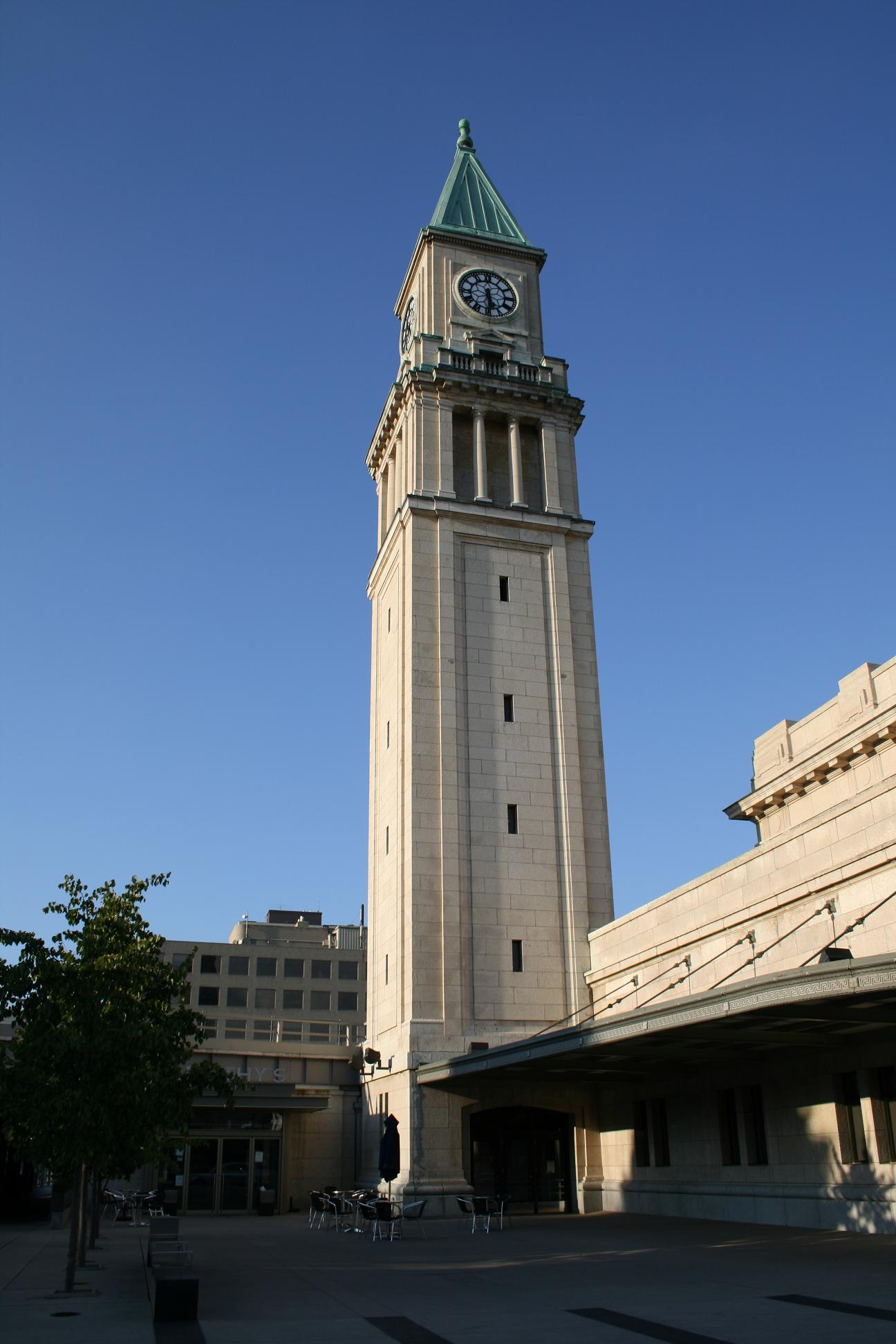 The LCBO flagship store in Toronto, Canada, formerly the North Toronto CPR railway station.